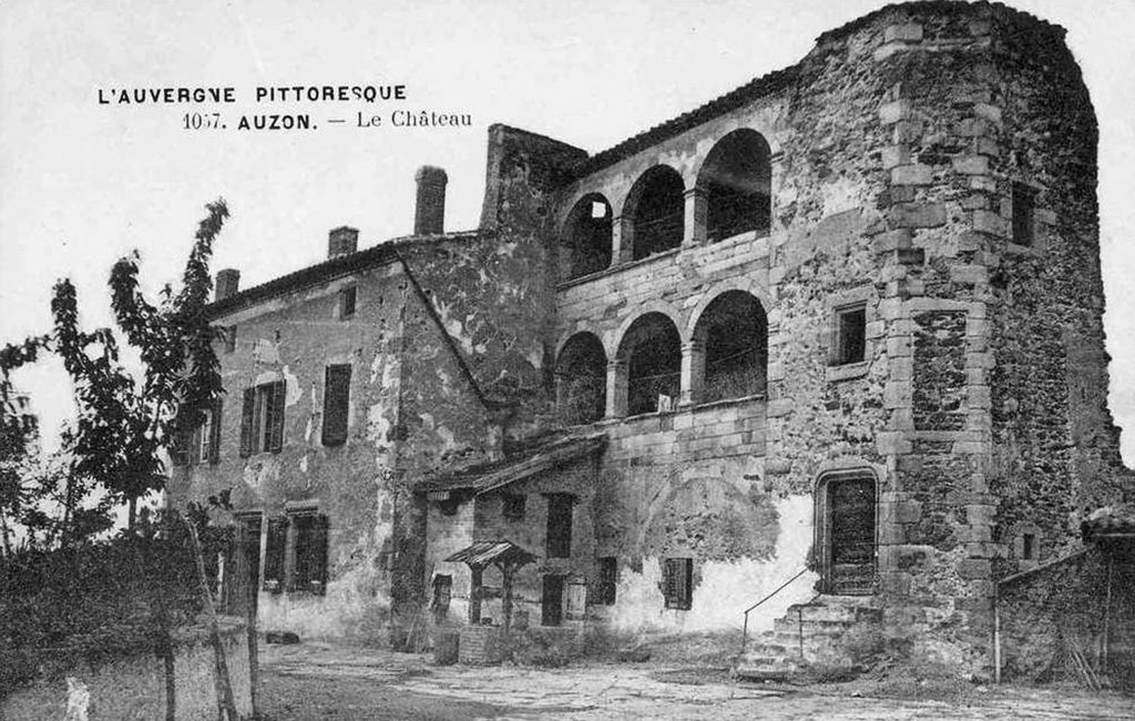 Remains of Auzon castle in the Haute-Loire department, France, circa 1900.